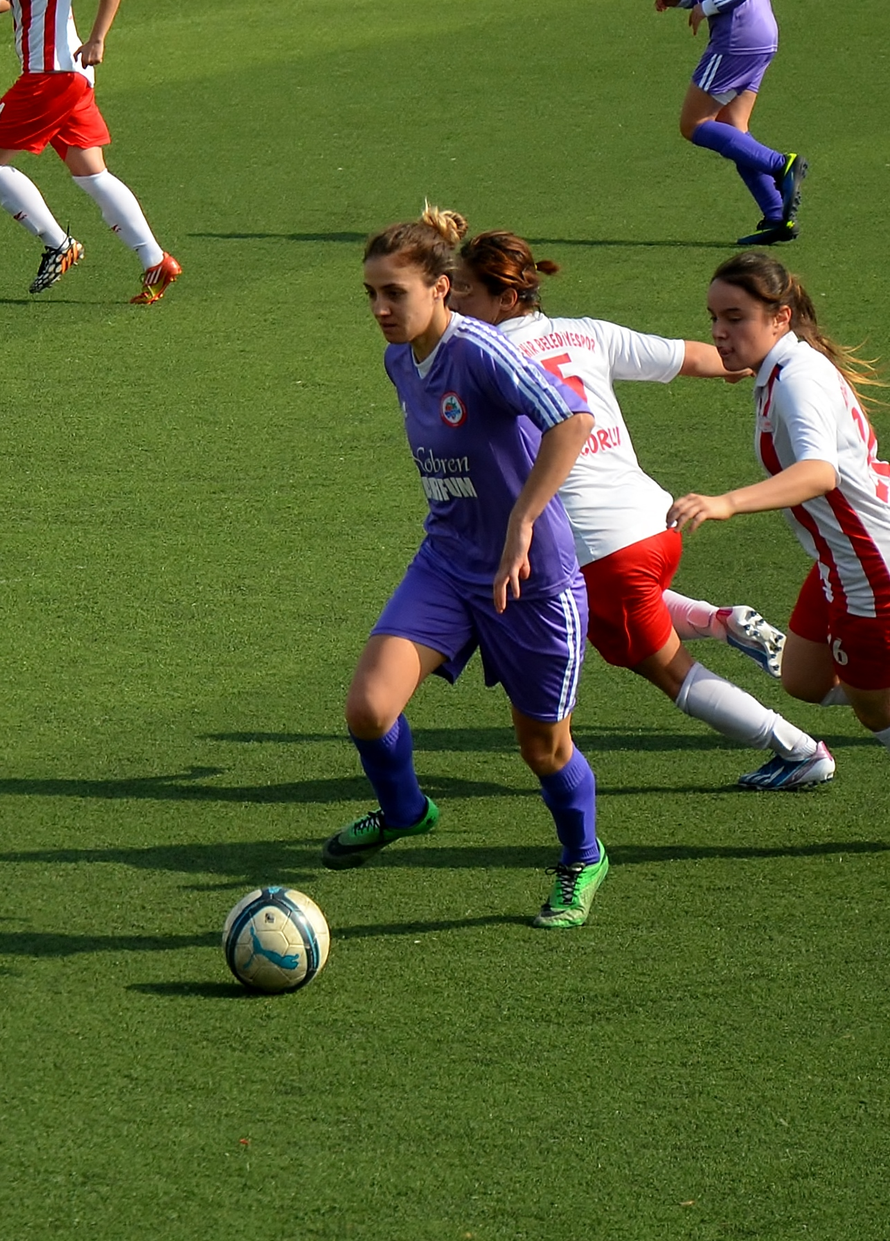 Khatia Tchkonia playing for Karadeniz Ereğlispor in the 2014-15 season away match against Ataşehir Belediyespor.